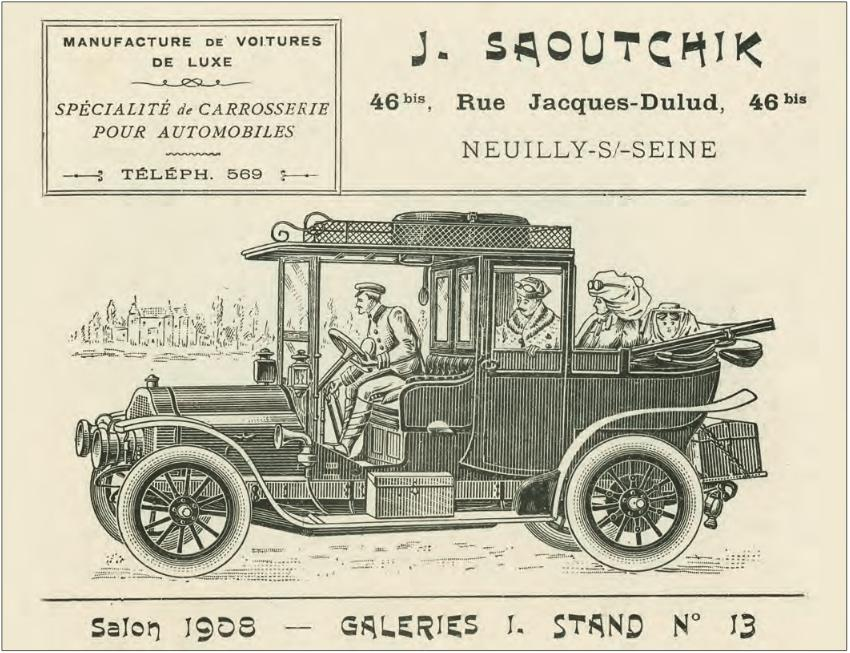 Atelier Saoutchik advrtising, 1908